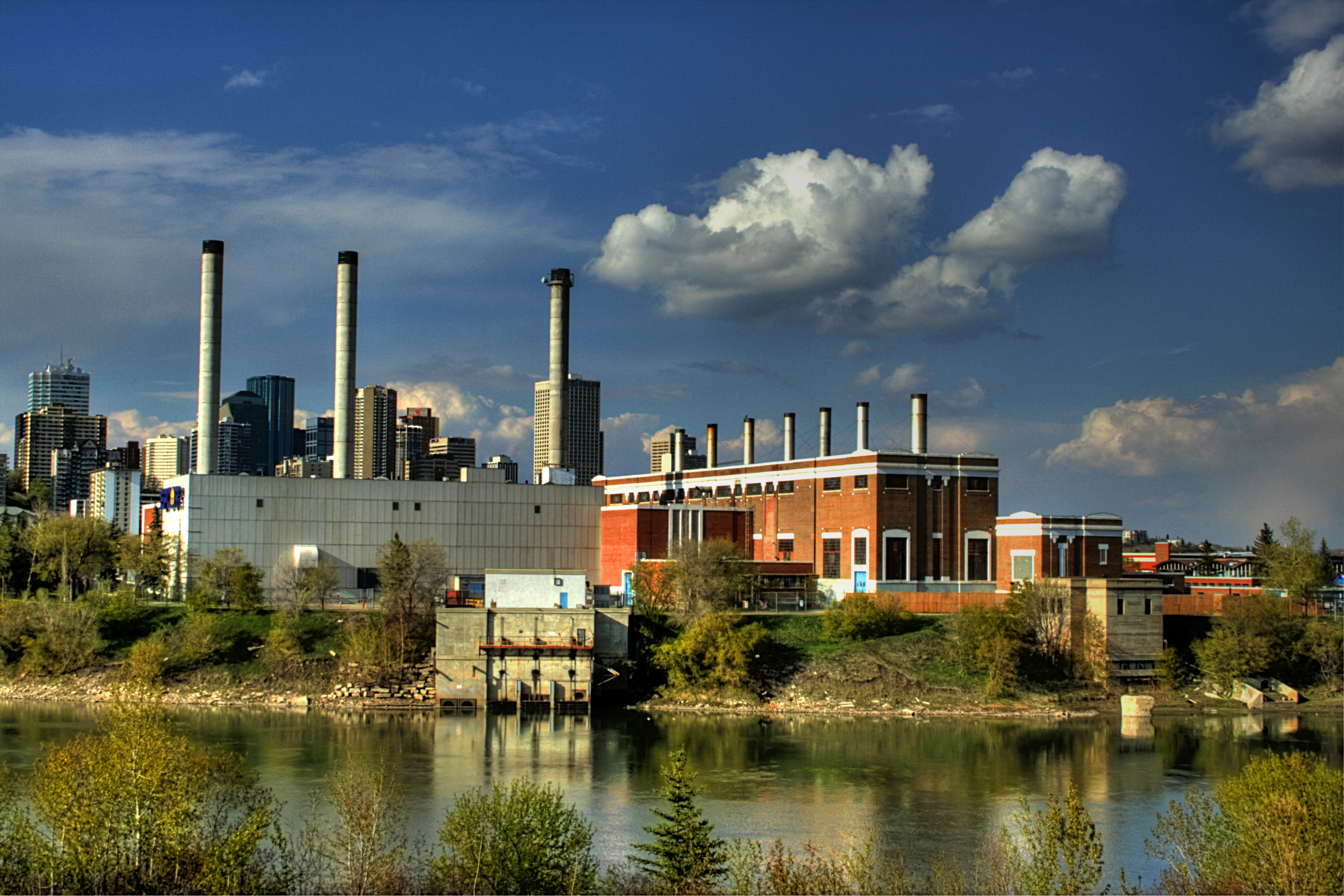 Buildings of the EPCOR's Rossdale Power Plant in Edmonton, Alberta, Canada. The plant was decommissioned in 2009.